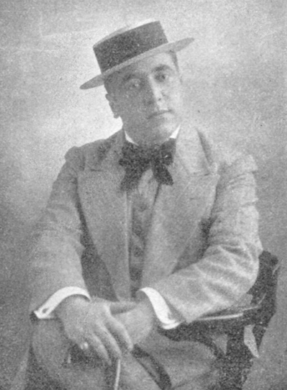 Photograph of the Romanian writer Caton Theodorian.